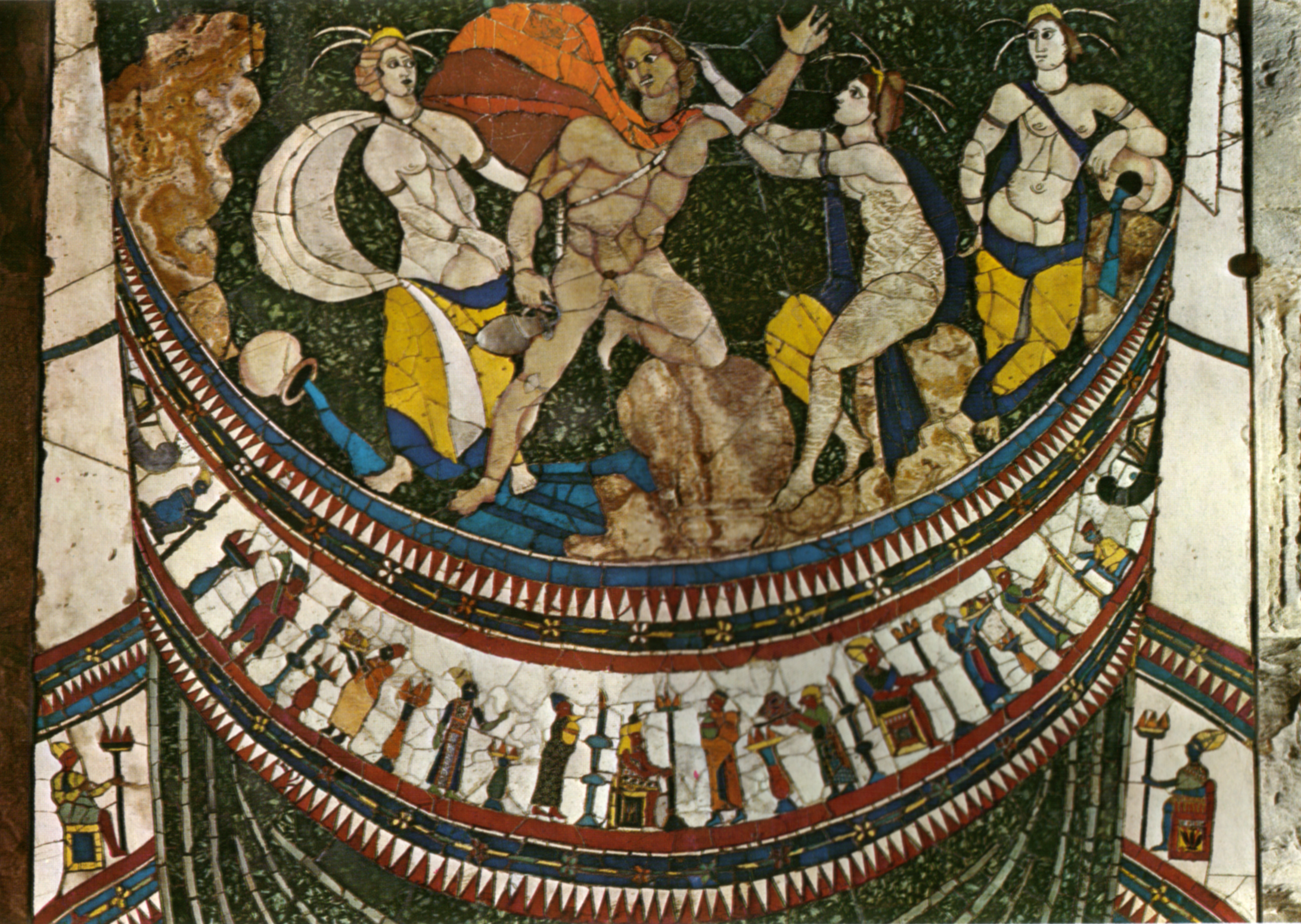 Opus sectile panel with the rape of Hylas by the Nymphs. Roman artwork, first half of the 4th century. From the basilica of Junius Bassus on the Esquiline Hill.